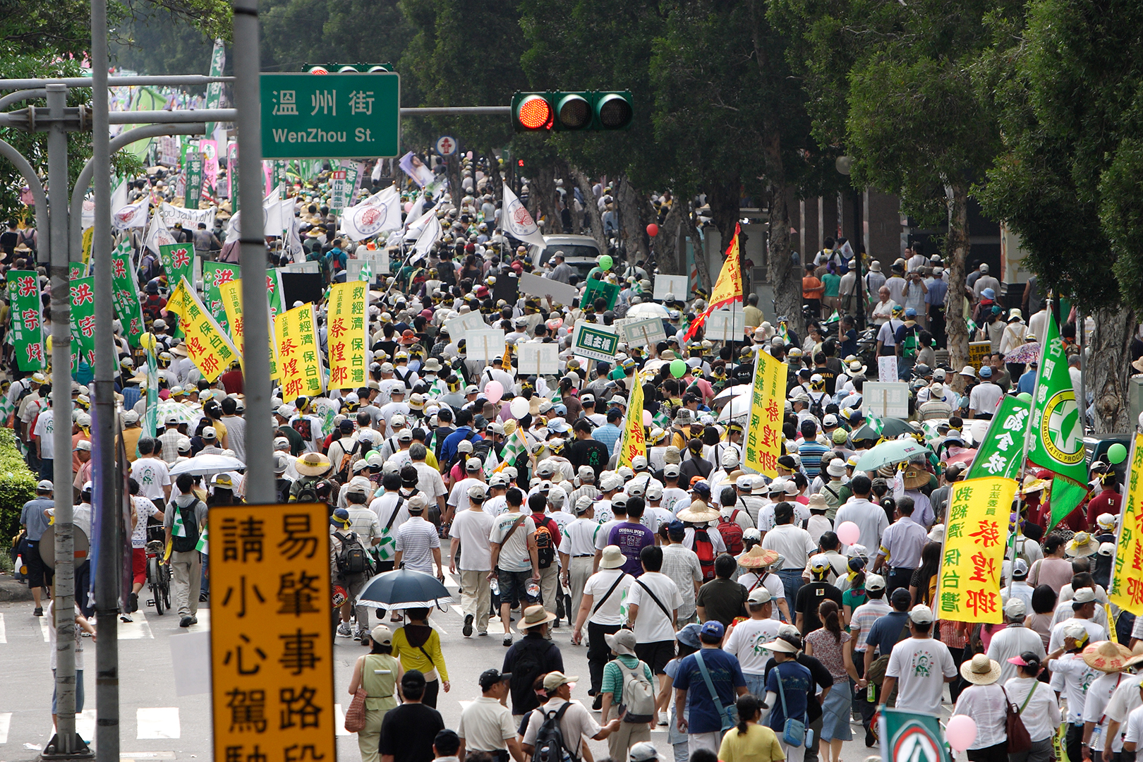 Taiwan protest May 17, 2009